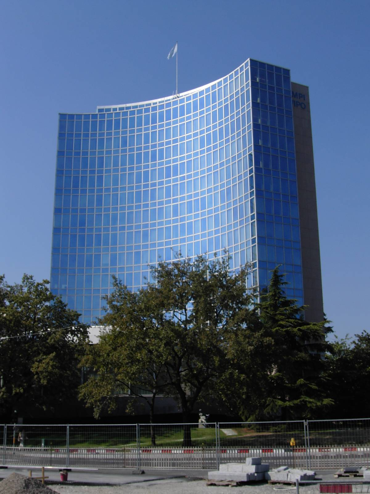 World Intellectual Property Organization (WIPO) Headquarters (the Árpád Bogsch Building also known as the Main Building) in Geneva, Switzerland